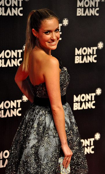 Televsion Personalty Kristin Cavallari attends "To John - With Peace & Love" Global Launch Of The Montblanc John Lennon Edition on September 12, 2010 at Jazz at Lincoln Center in New York City. (Photo © Nick Step)